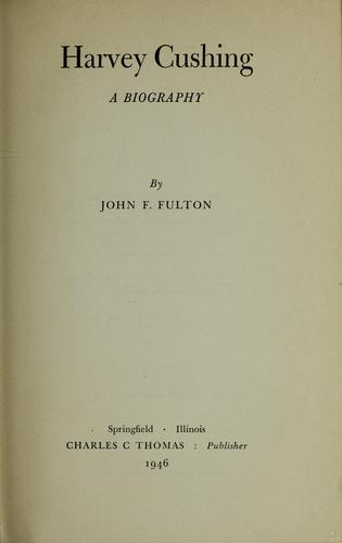 Harvey Cushing, a Biography